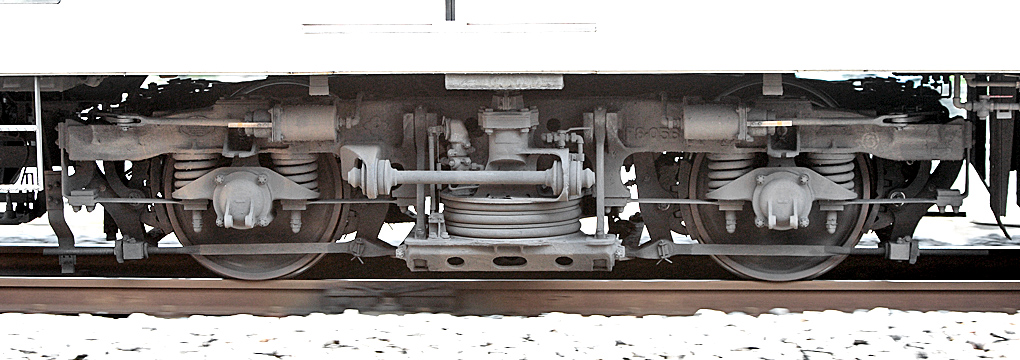 Sumitomo Metal Industries type FS056 ( Tobu type TRS-62T ) bogie truck of Tobu Railway 8000 series EMU ( Kuha 8607 )